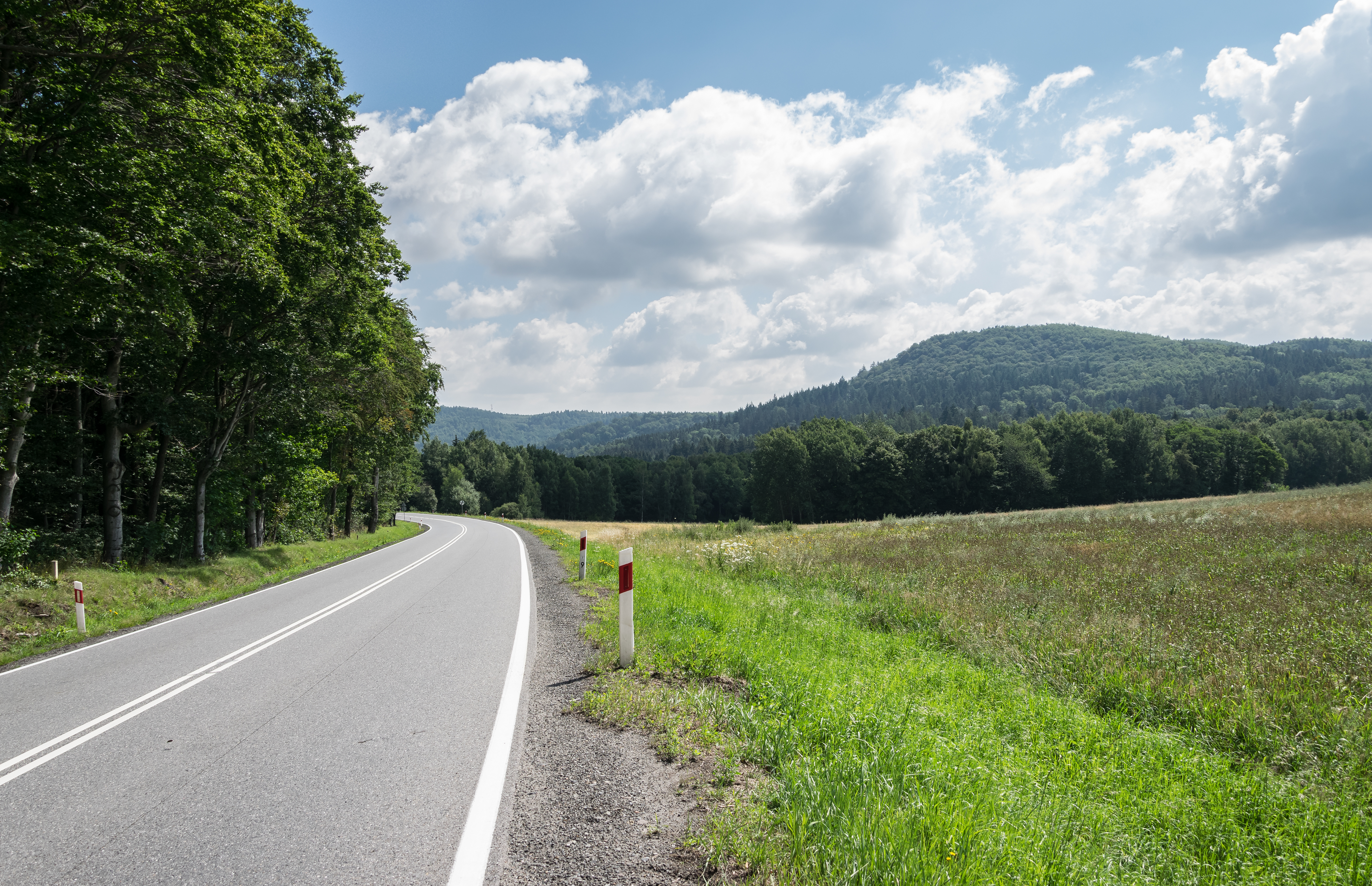 Kłodzka Pass, Sudetes